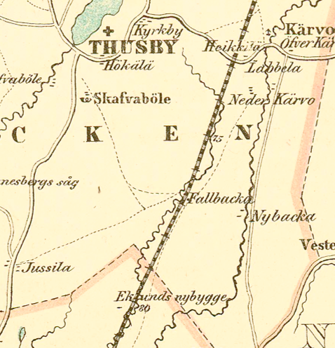 Possibly Fallbacka main building had to be moved when the railway was being built as after railway construction the map shows Fallbacka was on the right side of the railway, while the building was later on the left side of the railway.